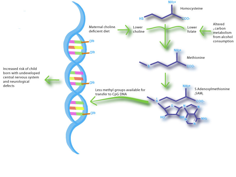 The nutriepigenetic pathway of maternal choline-deficient diets helps to elucidate the development of fetal alcohol syndrome. Pregnant rodents fed diets low in choline were found to give rise to offspring with diminished neurological capacity. This is similar to pregnant rodents whom were fed ethanol and were found to have alterations in the metabolism of 1-carbon compounds. This leads to diminished levels of methyl donors available for methylating DNA; thus allowing for overexpression of normally silenced genes causing neurological defects in their offspring.